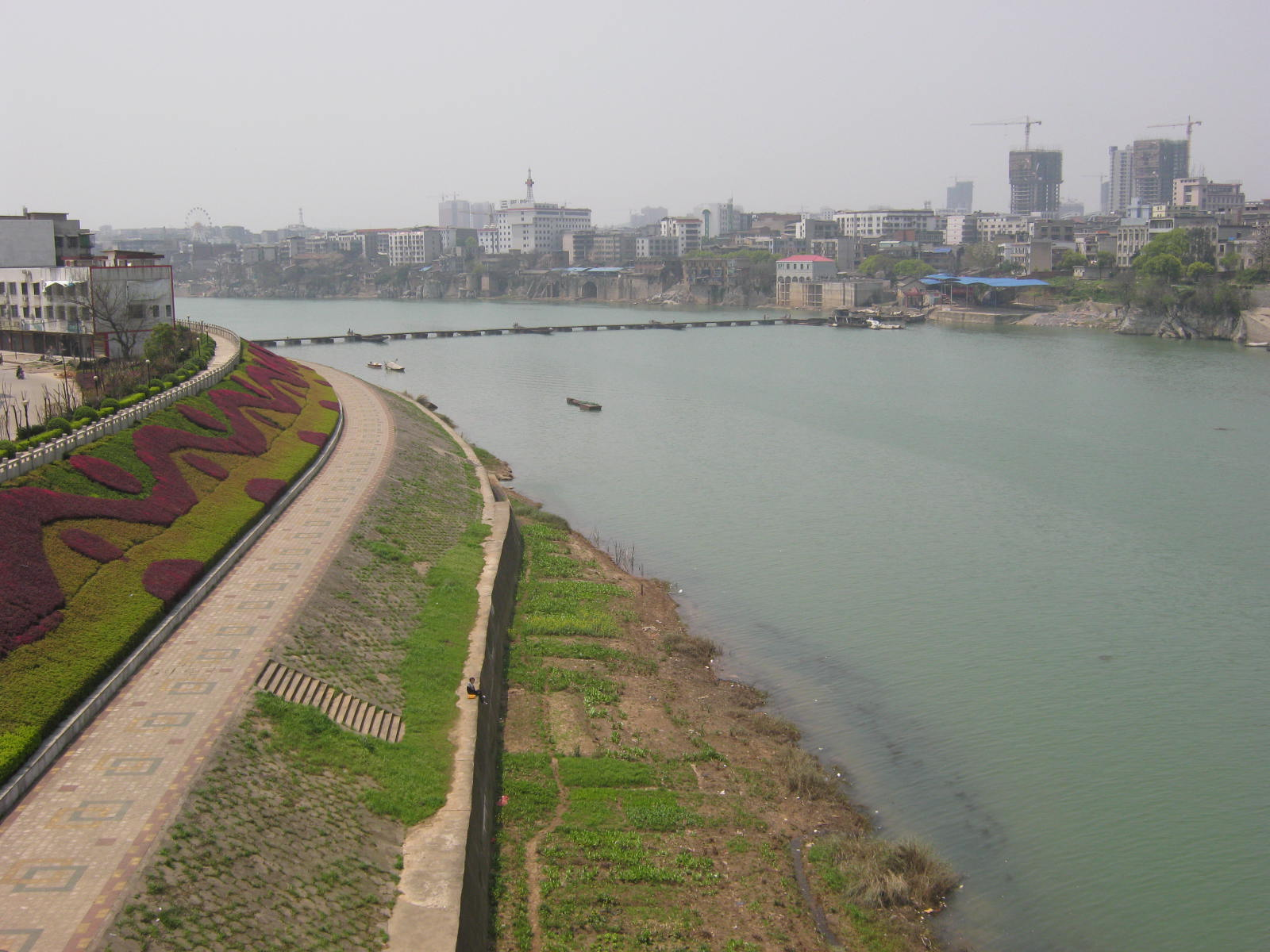 YongZhou